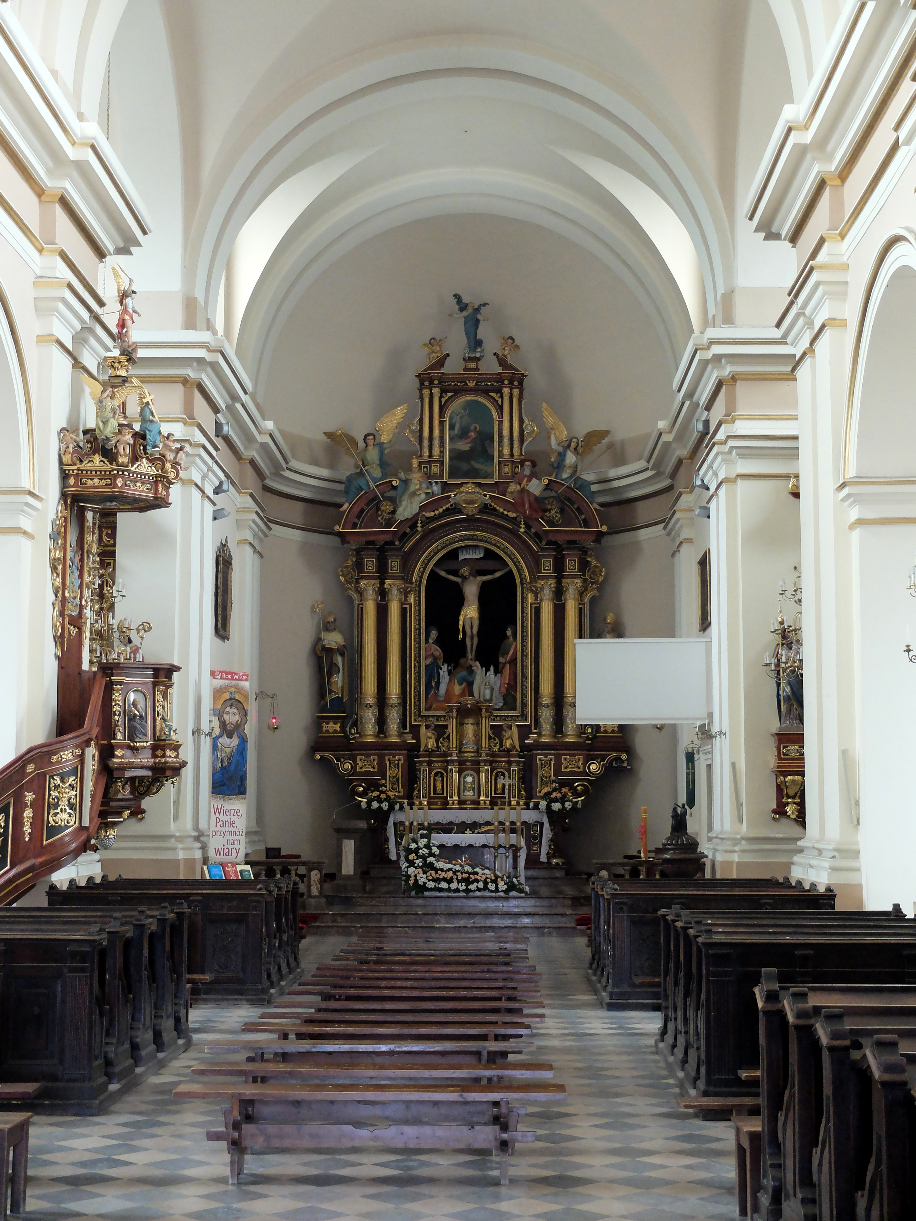 Corpus Christi parochial church in Słomniki